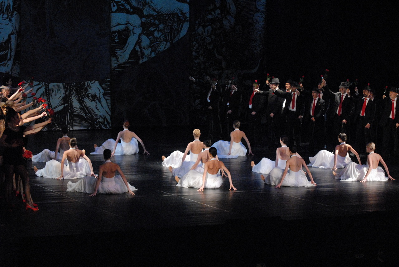 "Carmina Burana", the scenic cantata by Carl Orff, based on 24 poems from the medieval collection Carmina Burana, directed by Sonja Vukićević, Opera of the SNP, Novi Sad, 2009/10; Ballet ensemble of SNT Srpski (latinica): "Karmina Burana", scenska kantata Karla Orfa, bazirana na 24 pesme srednjovekovnog zbornika Karmina Burana, u režiji Sonje Vukićević, Opera SNP, Novi Sad, 2009-2010; ansambl Baleta SNP-a Српски (ћирилица): "Кармина Бурана", сценска кантата Карла Орфа, базирана на 24 песме средњовековног зборника Кармина Бурана, у режији Соње Вукићевић, Опера СНП, Нови Сад, 2009-2010; ансамбл Балета СНП-а